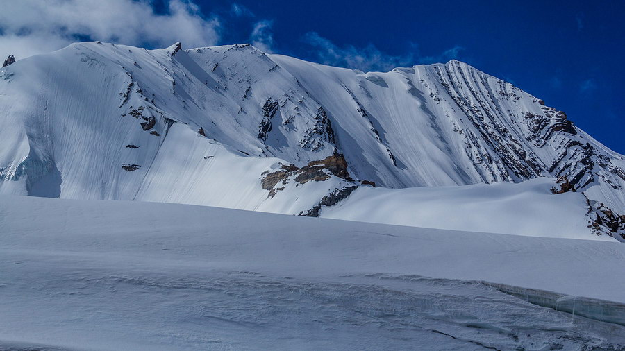 Shilla (6132m) NW view from Shilla Col BC via Shilla nullah